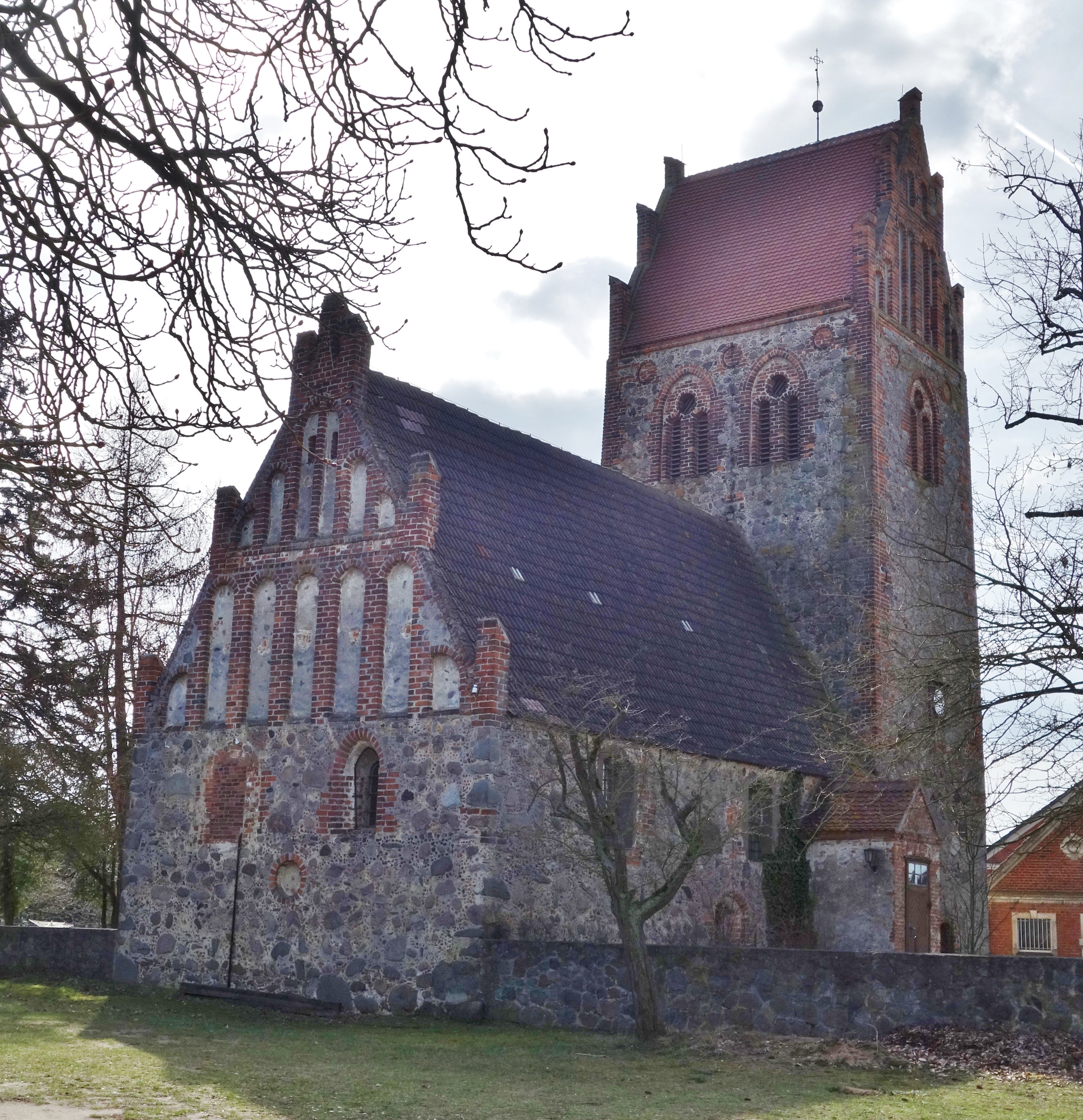 North-eastern view of church in Barenthin, Gumtow municipality, Prignitz district, Brandenburg state, Germany